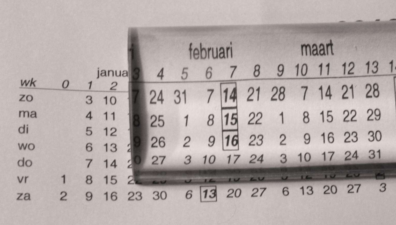 Cylindrical magnifying glass